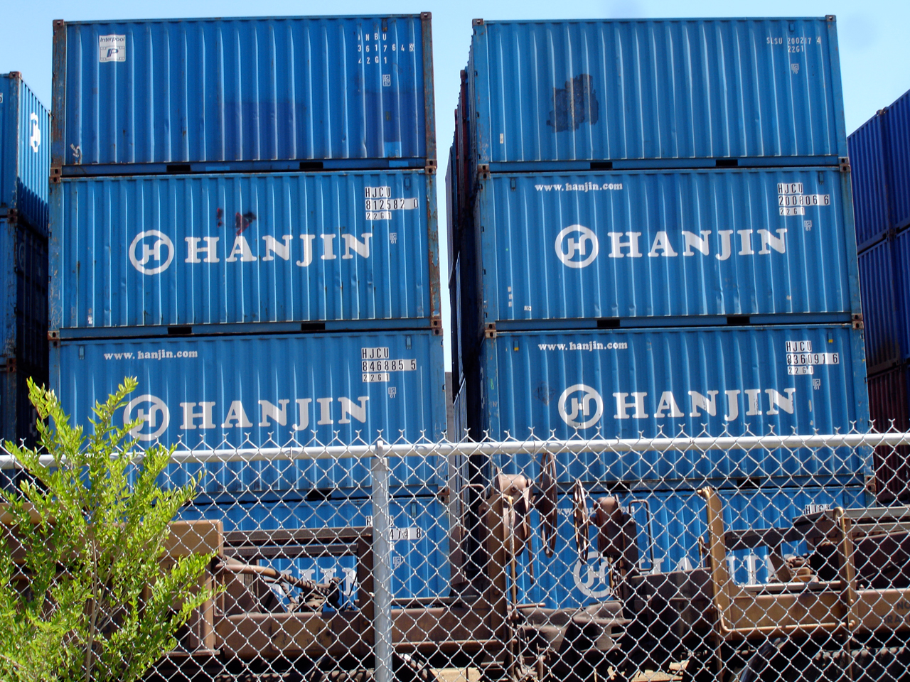 Thanks to Wikipedia, I found out that Korea's Hanjin is one of the largest container transport companies in the world.